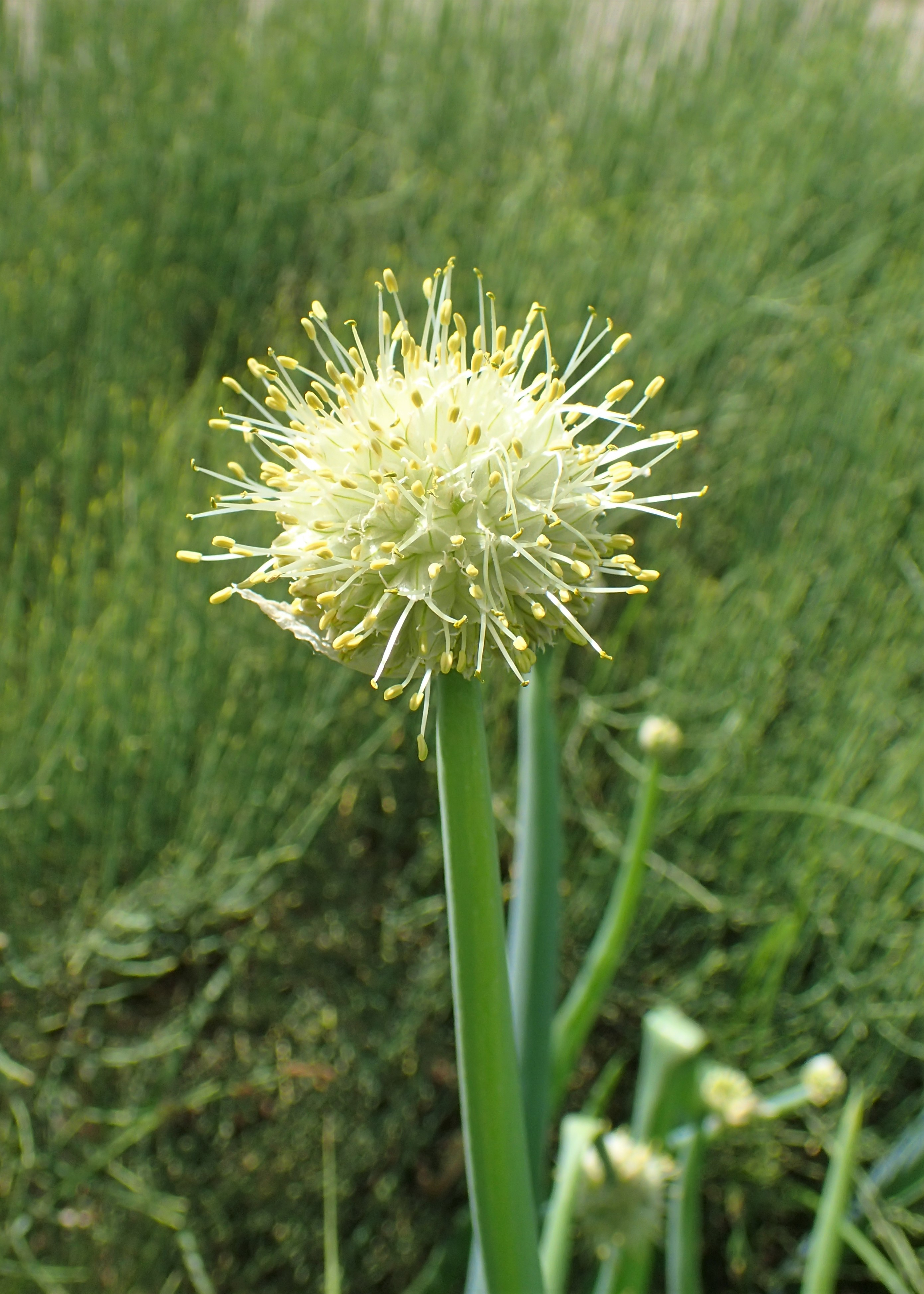 Allium altaicum in the Botanischer Garten, Berlin-Dahlem